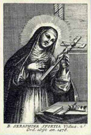 Devotional print, after 1754, with blessed Serafina Sforza, Poor Clare